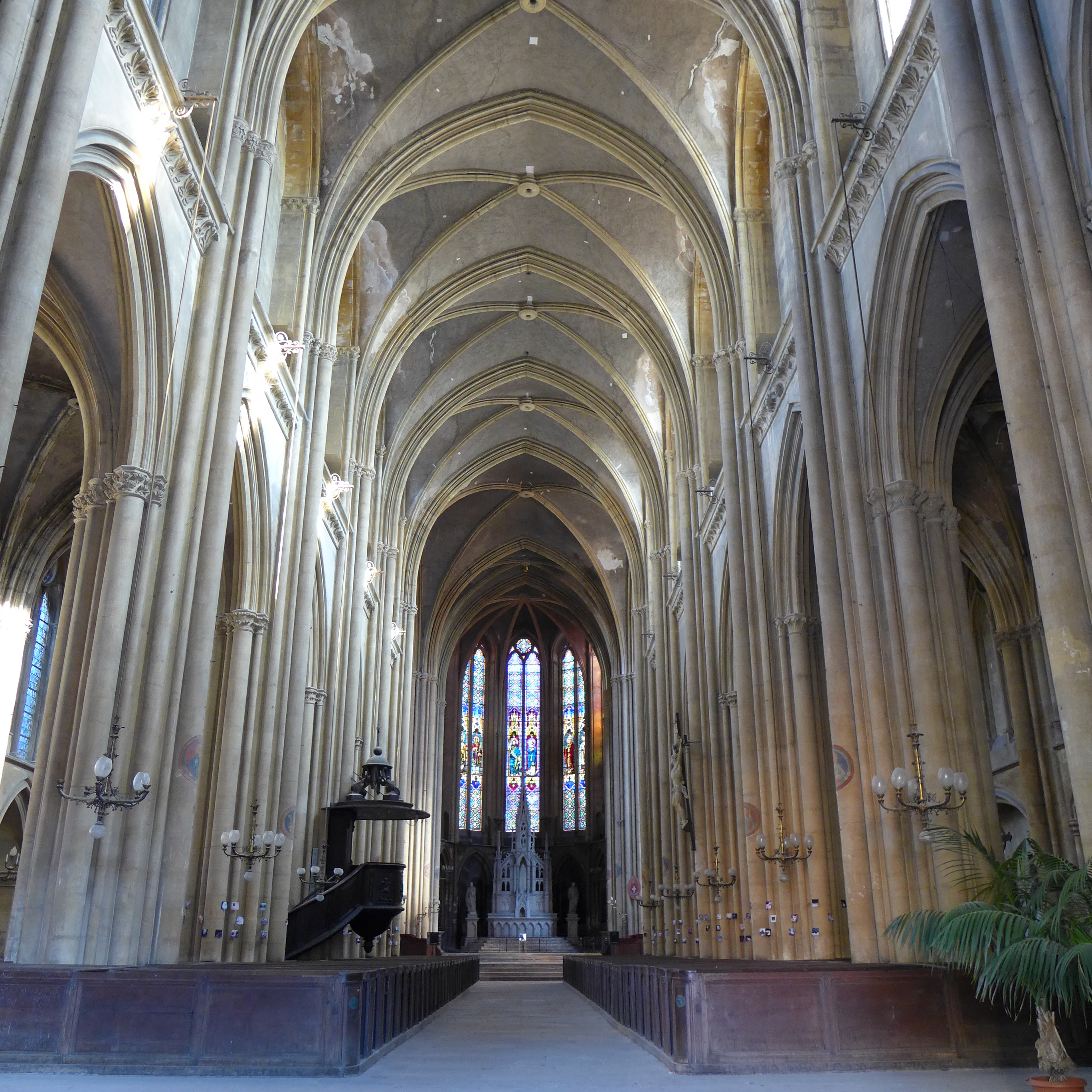 Ehemalige Abteikirche St. Vincenz, Metz, Inneres mit Blick zur Apsis